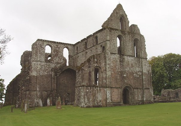 Dundrennan Abbey